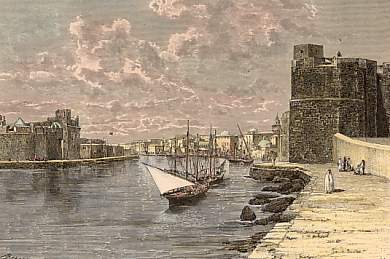 Wood engraving drawn by A. Slom, engraved by Bertrand, 1886. 18,5x12,5cm.